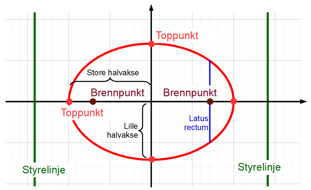 Conic sections terminology, Norwegian